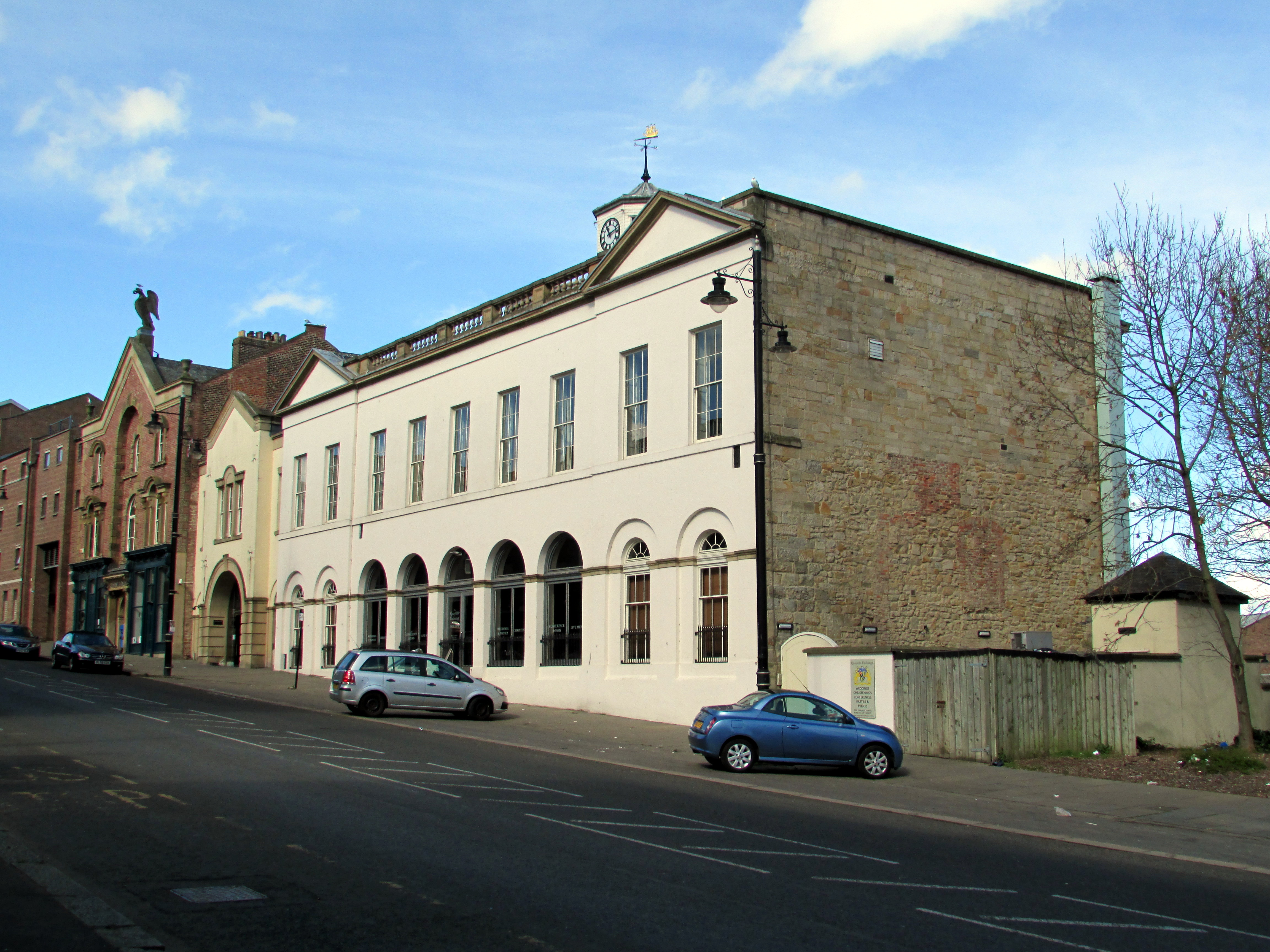 Exchange Building (1812-14) by John Stokoe